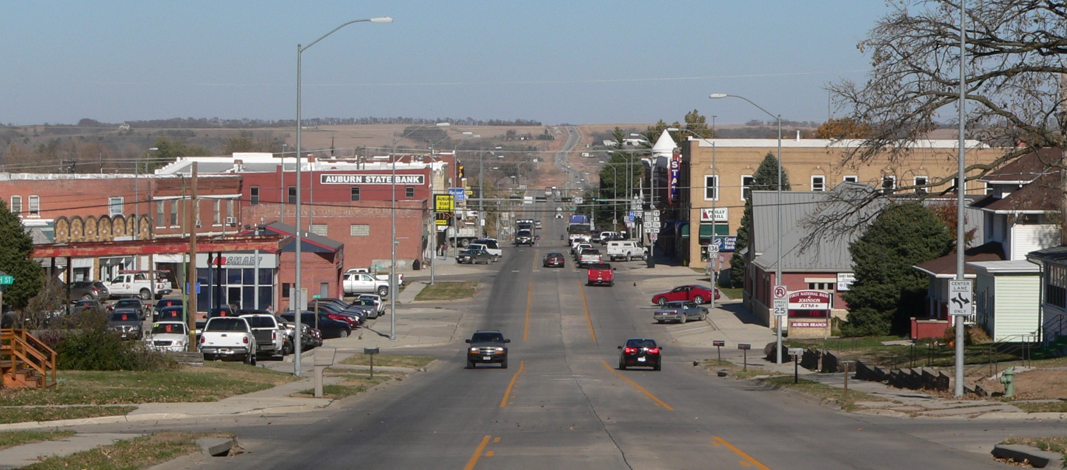 Auburn, Nebraska: J Street (U.S. Highway 75), looking north from about 16th Street.